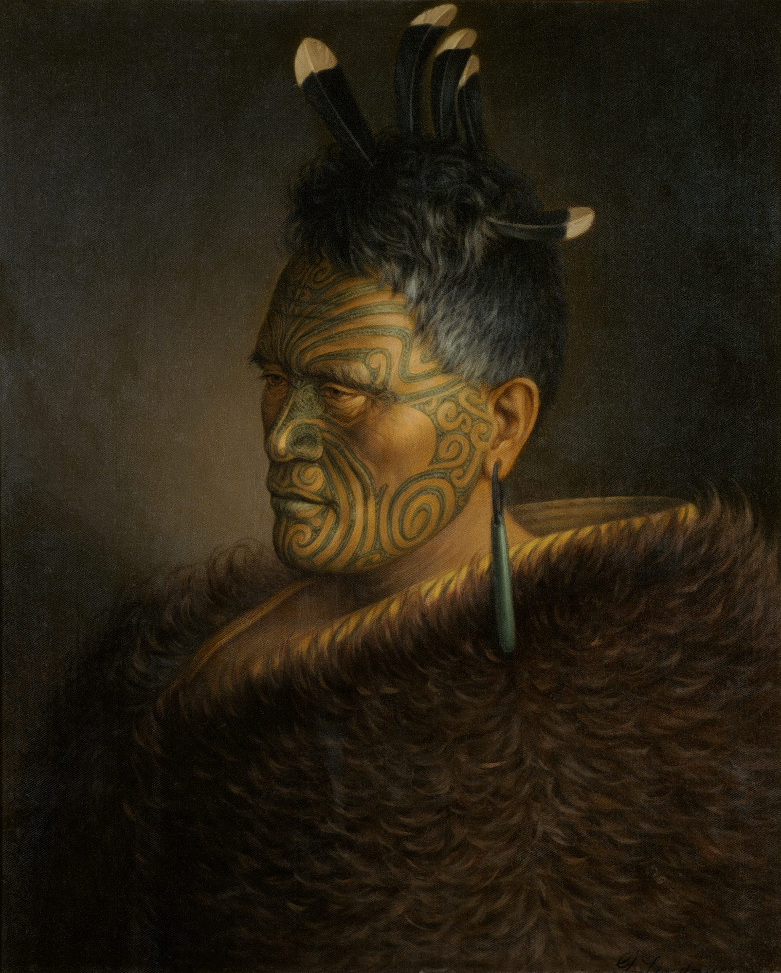 A portrait of King Tawhiao Potatau Te Wherowhero by Gottfried Lindauer.